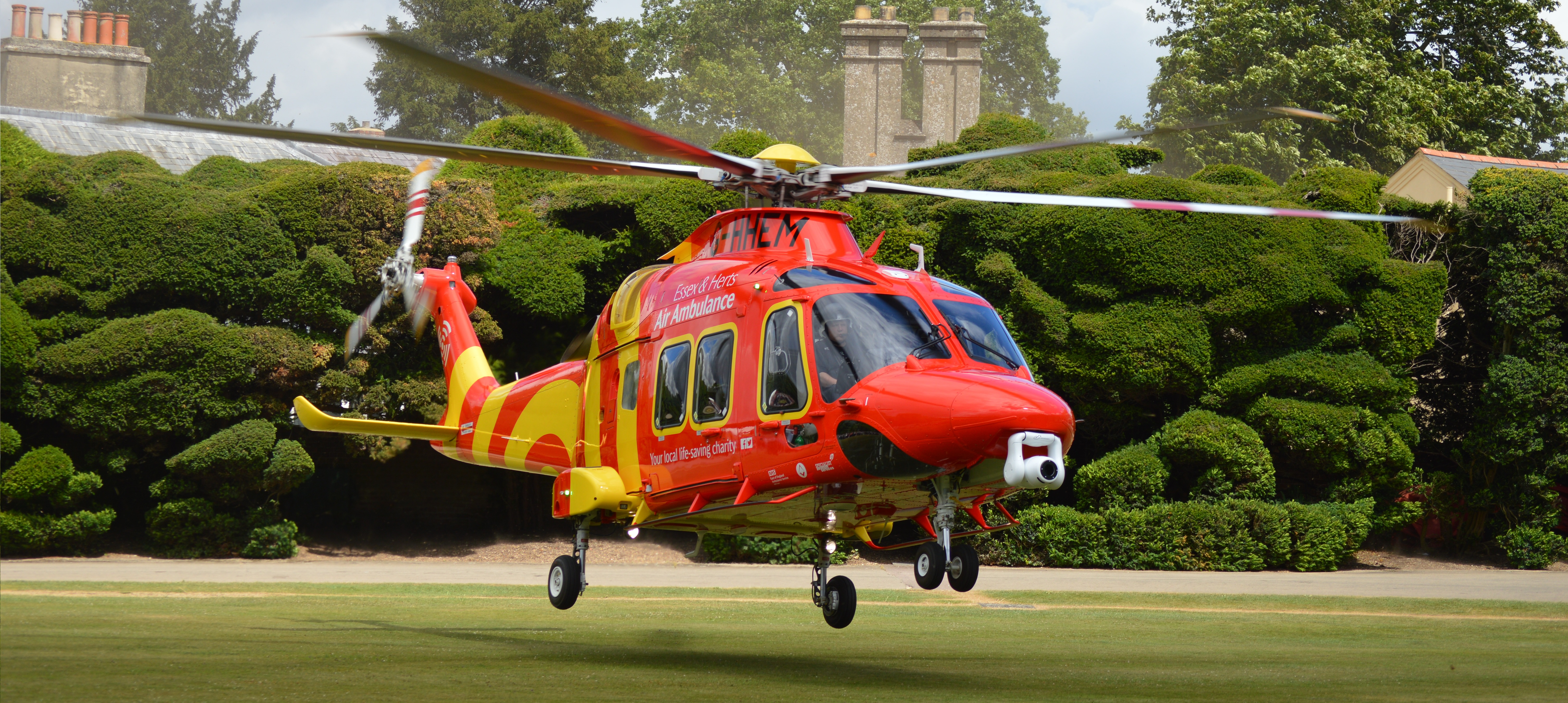 One of the current aircraft in use by Essex & Herts Air Ambulance, an Agusta Westland 169.